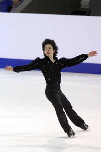 2010 World Junior Figure Skating Championships - Keegan Messing